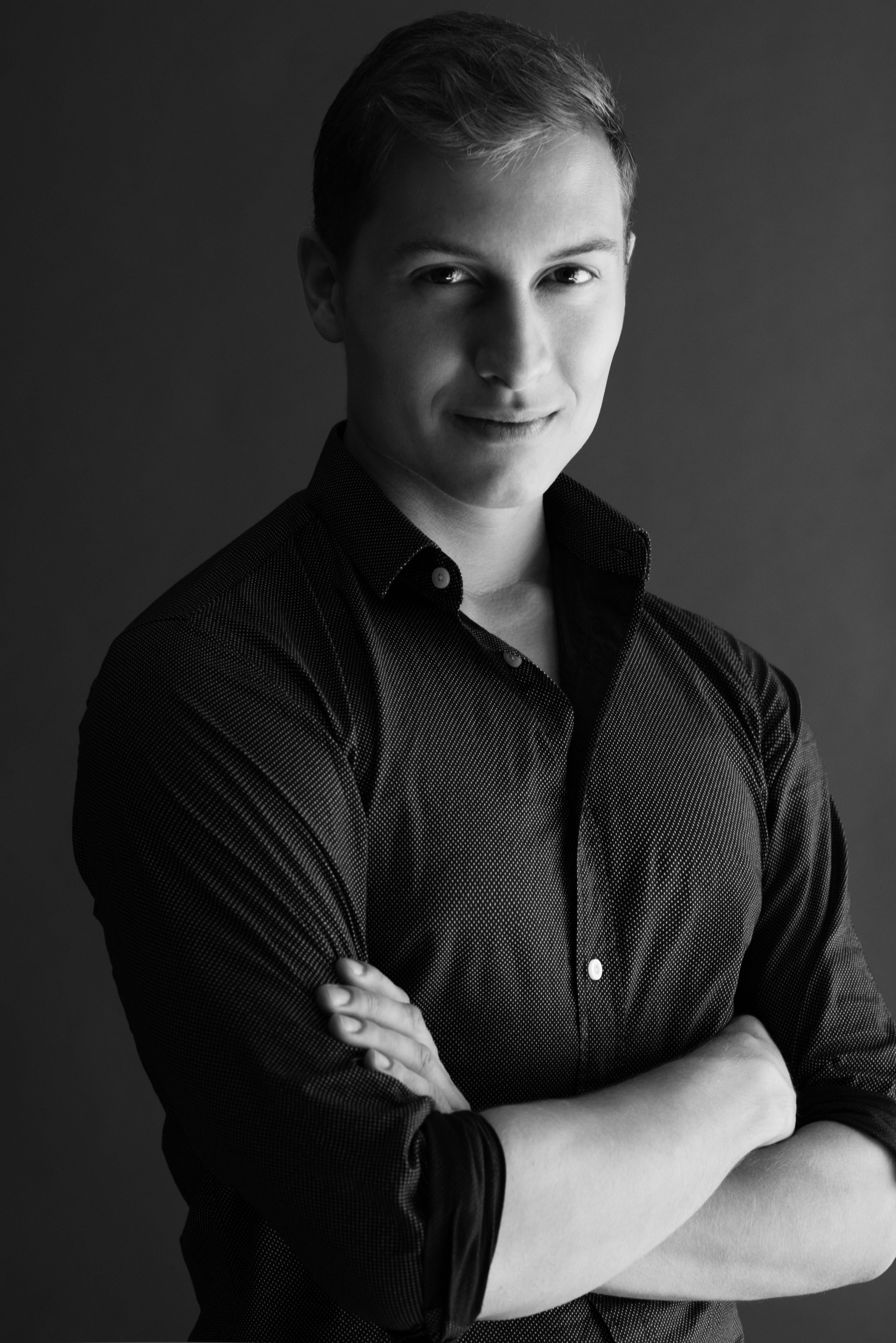 Image of fashion design Paul Vasileff